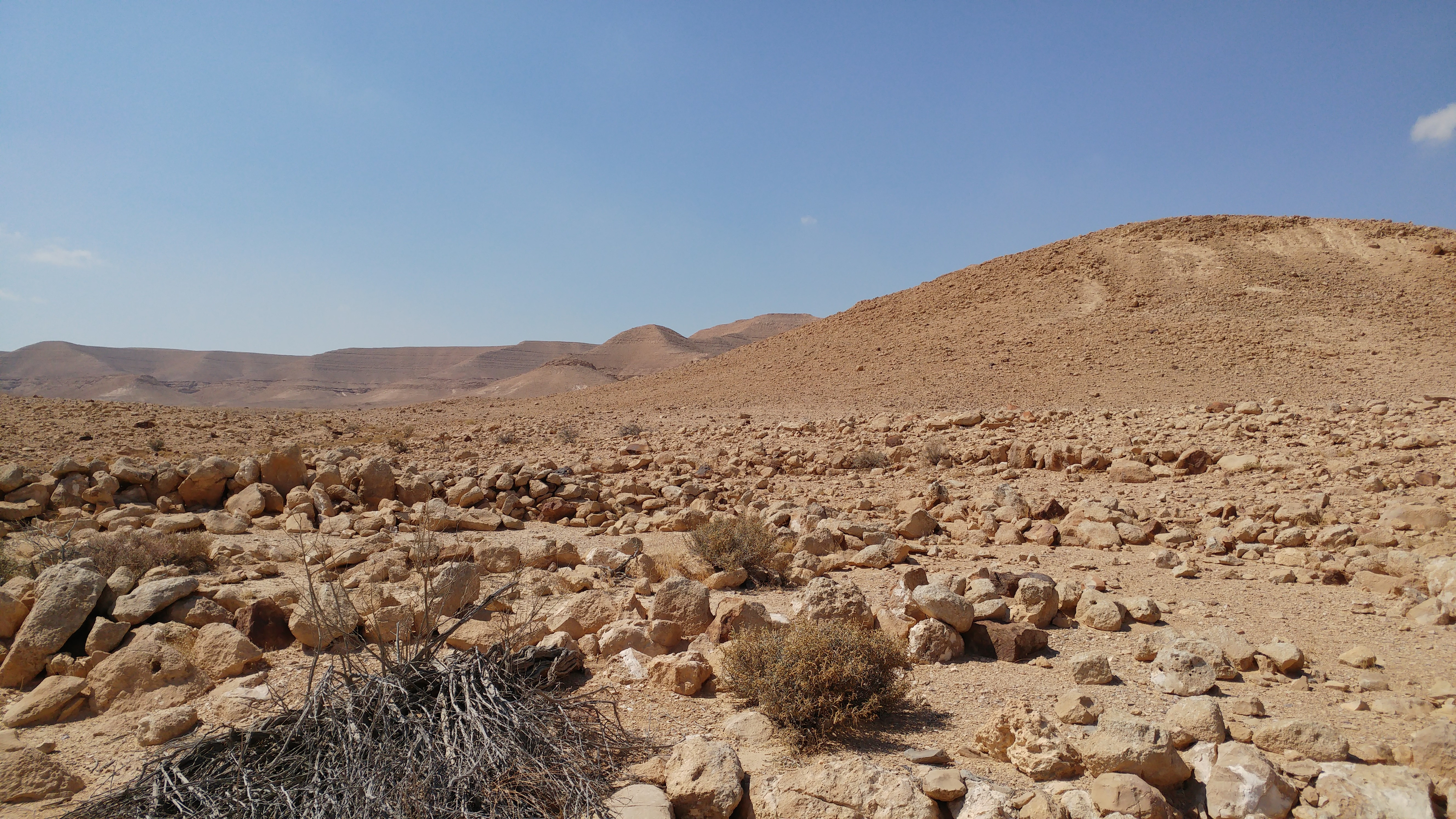 "Temples boulevard" at the foot of Har Karkom ridge, Israel.